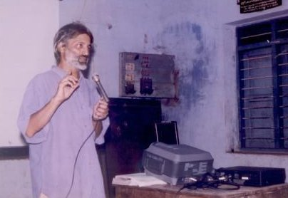 Film maker Anandpatwardhan during an exhibition of his film, Ram ke Nam at Kollam